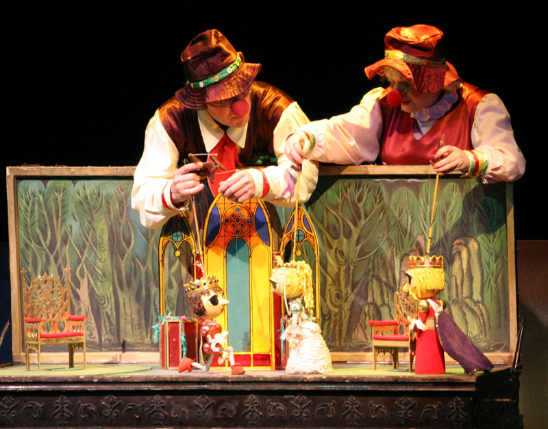 Performance Saratov Puppet Theatre "Teremok" "Jumping Princess".